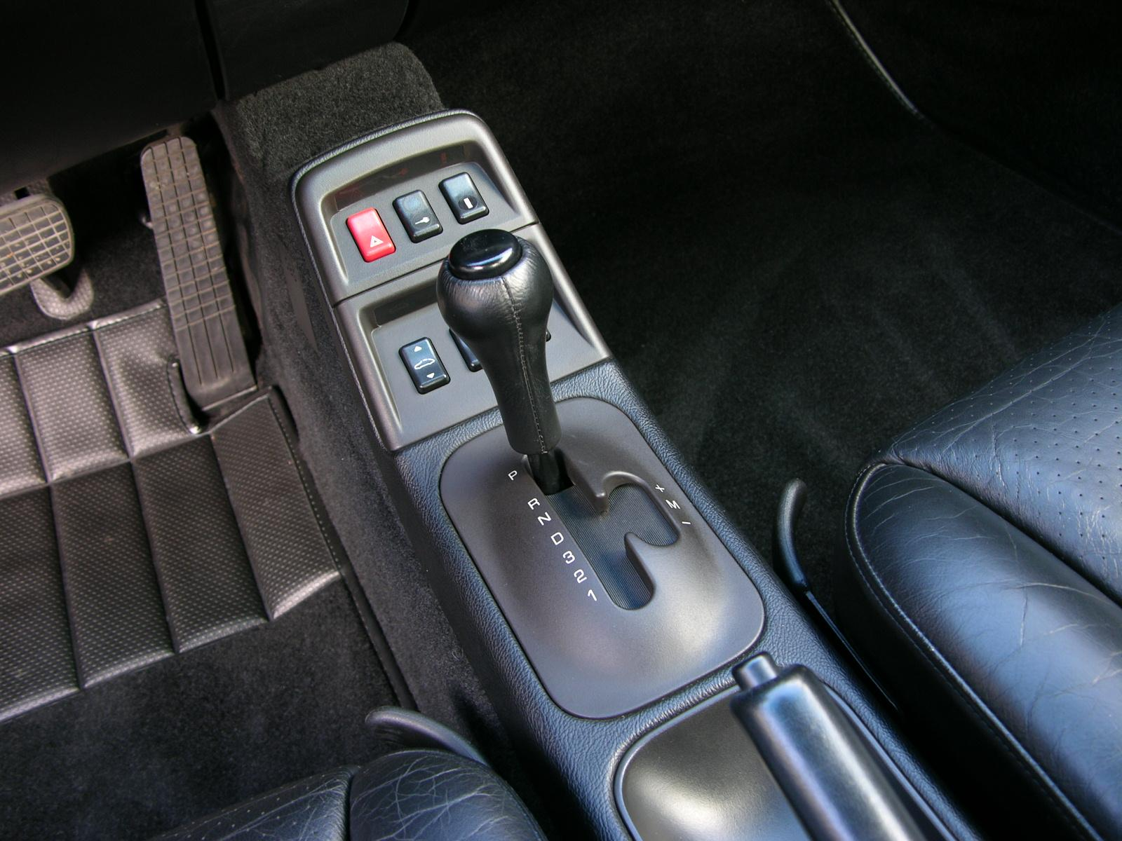 Porsche 911 Carrera 2, Tiptronic lever